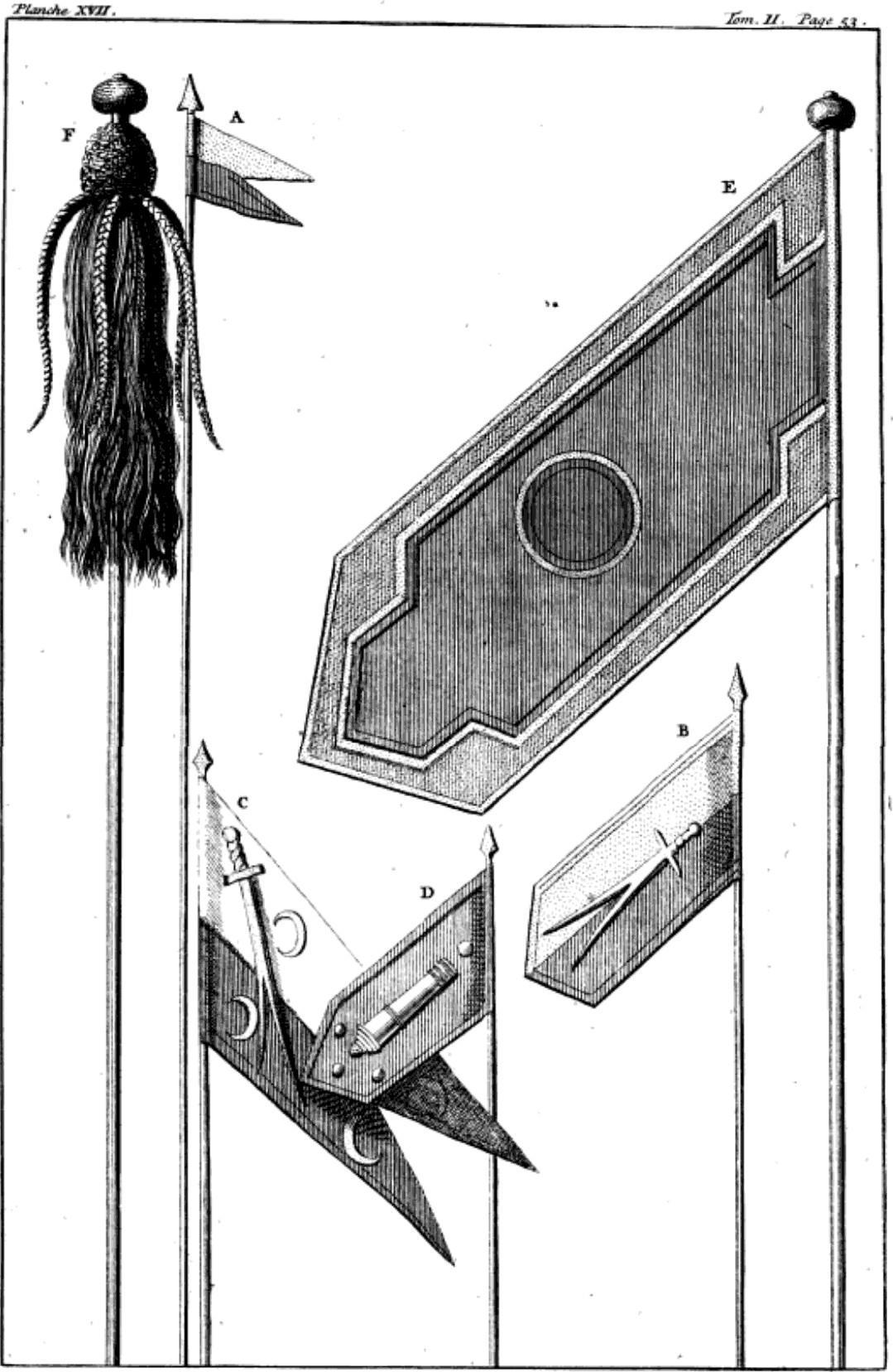 Drawing about Ottoman Empire's military, such as arms, flags, armory, tactics Luigi Ferdinando Marsigli (1658 – 1730).